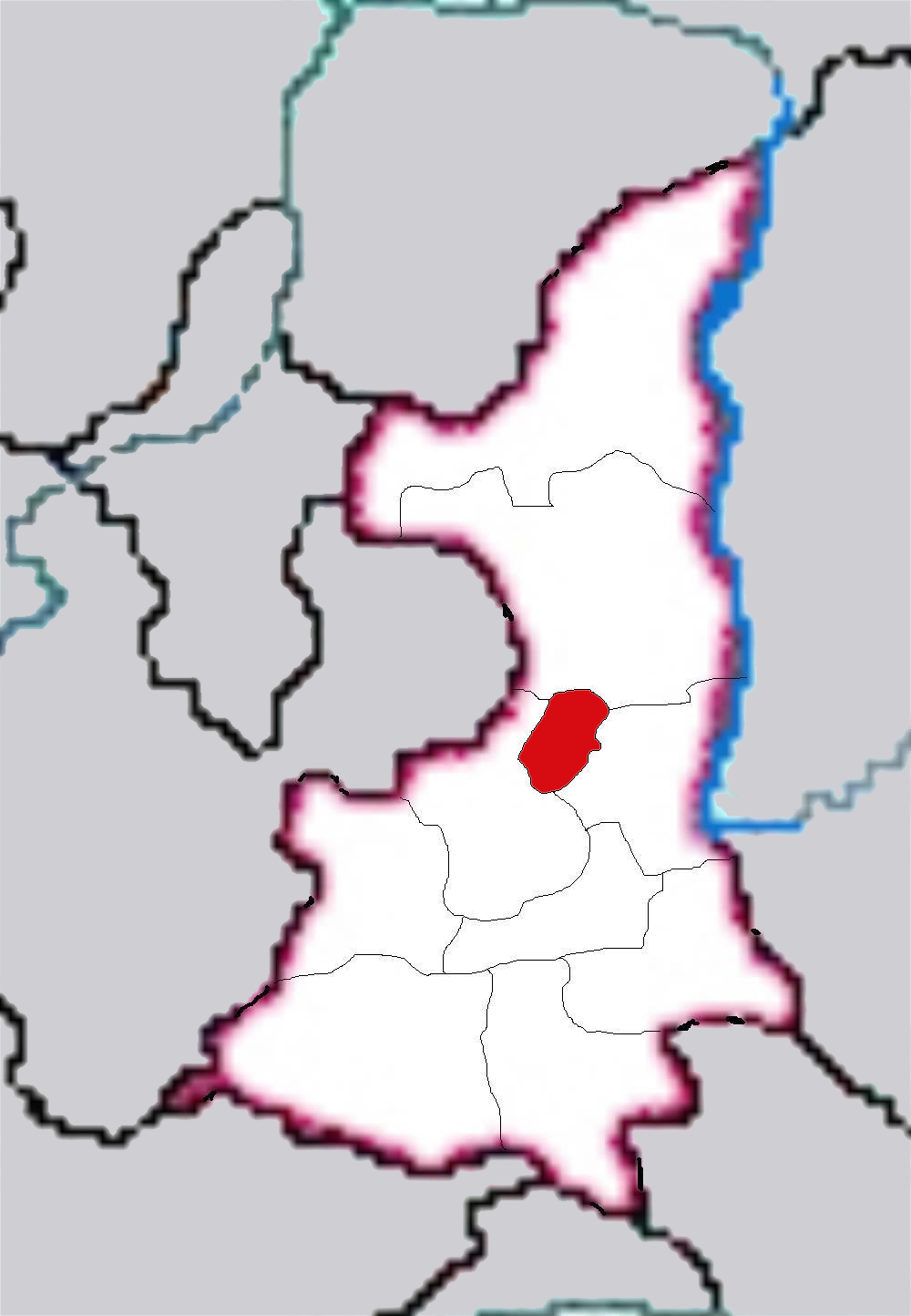 Location of Tongchaun in Shaanxi Province